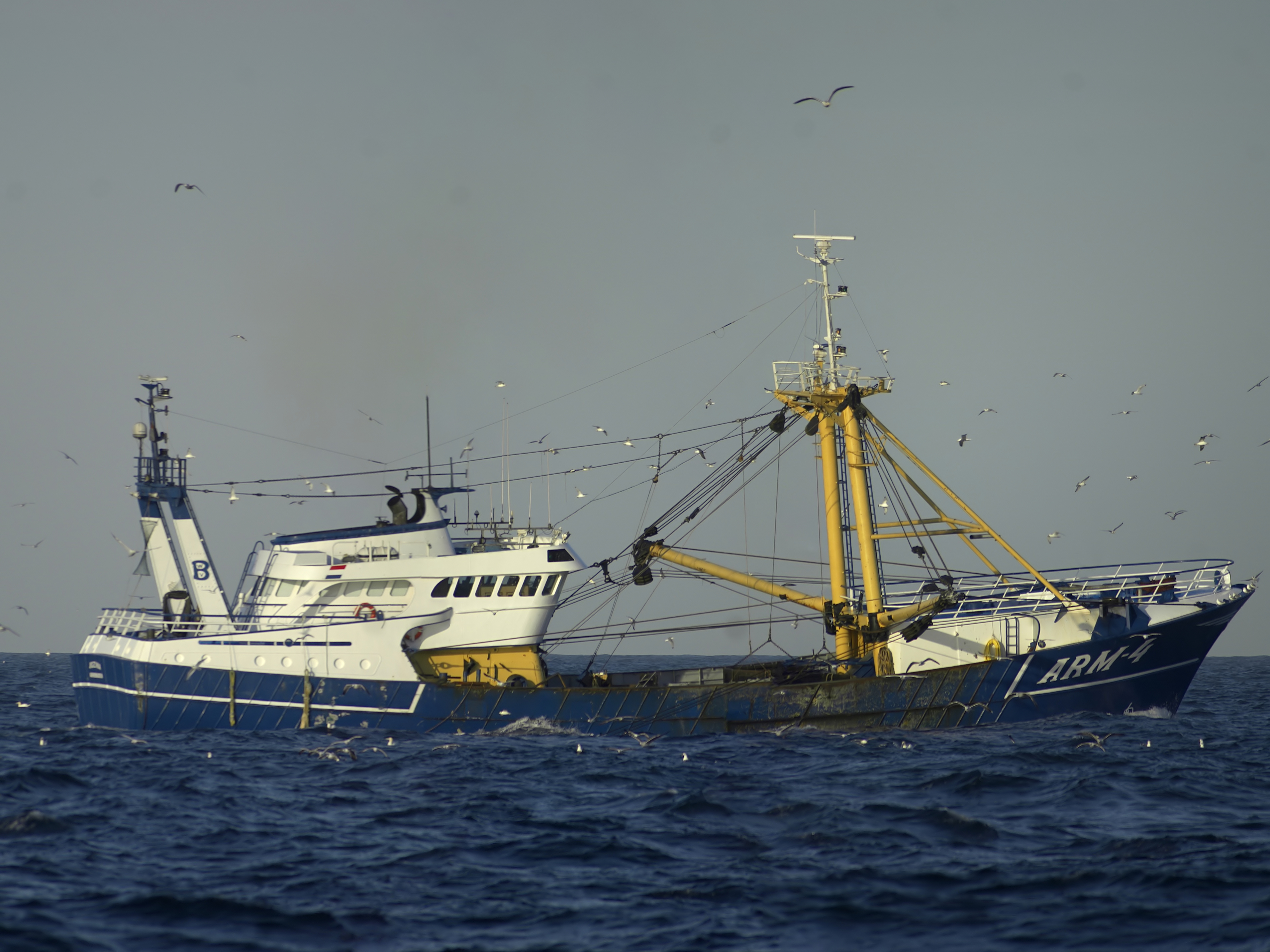 ARM.4 Jozina.